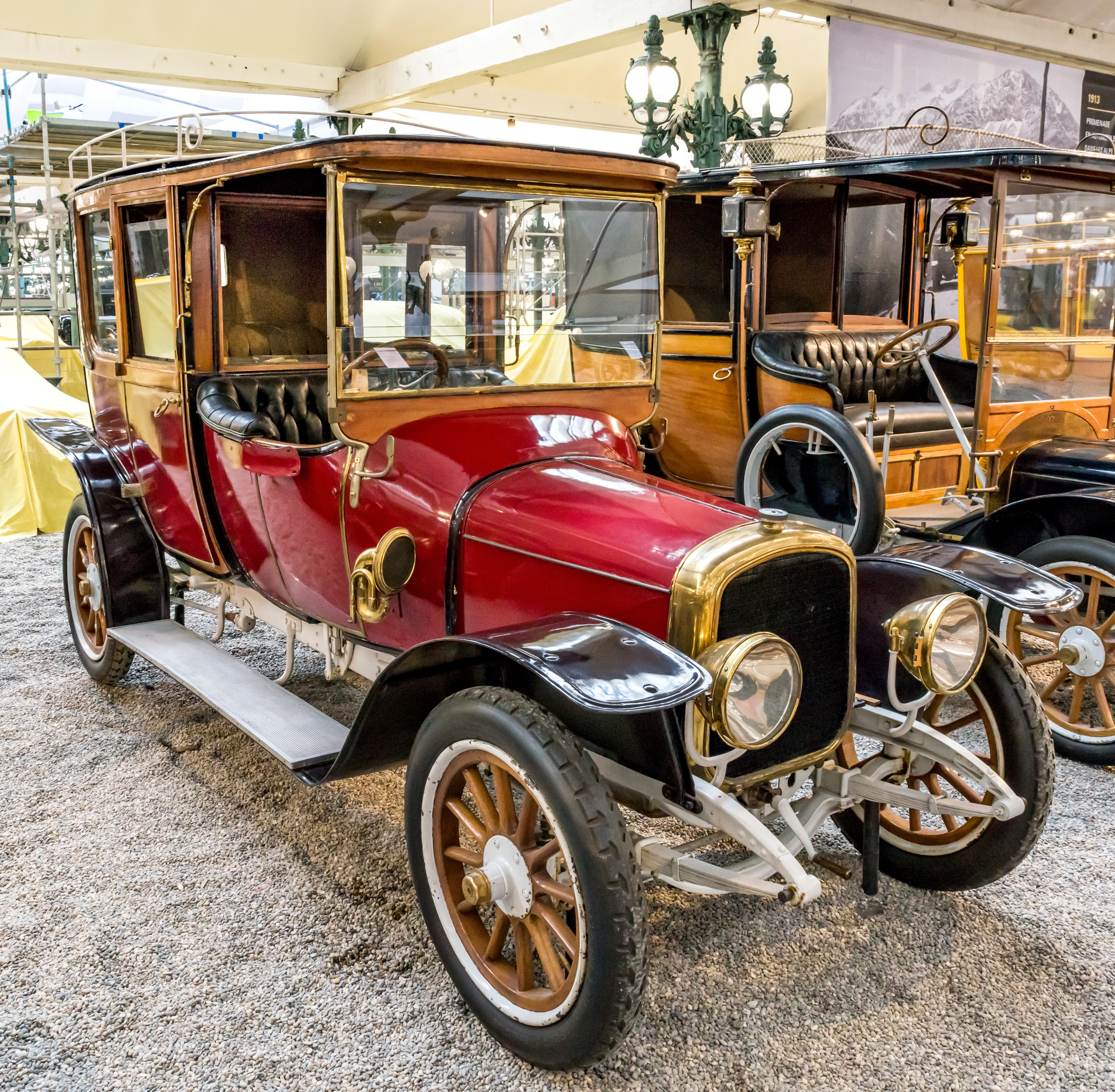 pictures from the Cité de l’Automobile – Musée National – Collection Schlump in Mulhouse, France ptictures from the 10. may 2018